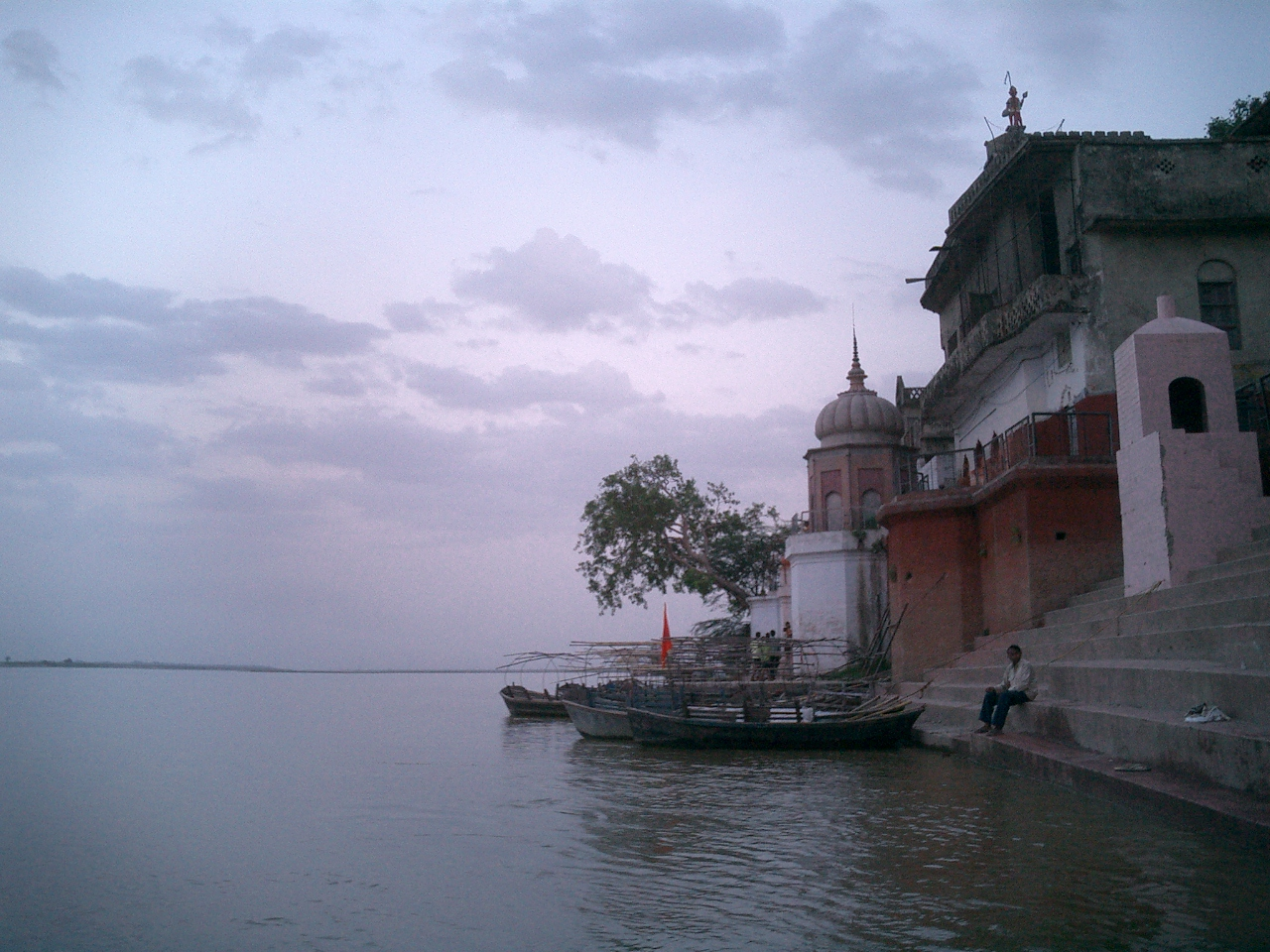 the ghat of river ganga, holy river revered by Hindus. taken near Kanpur